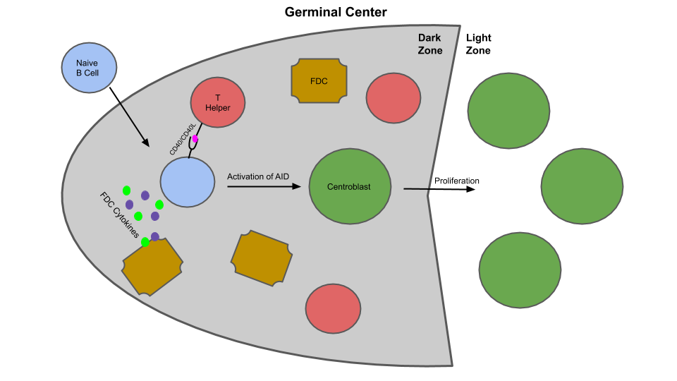 A diagram showing how B cells differentiate into centroblasts using signals from follicular dendritic cytokines and T helper cells. Notable features is the CD40/CD40L binding and the activation of AID.